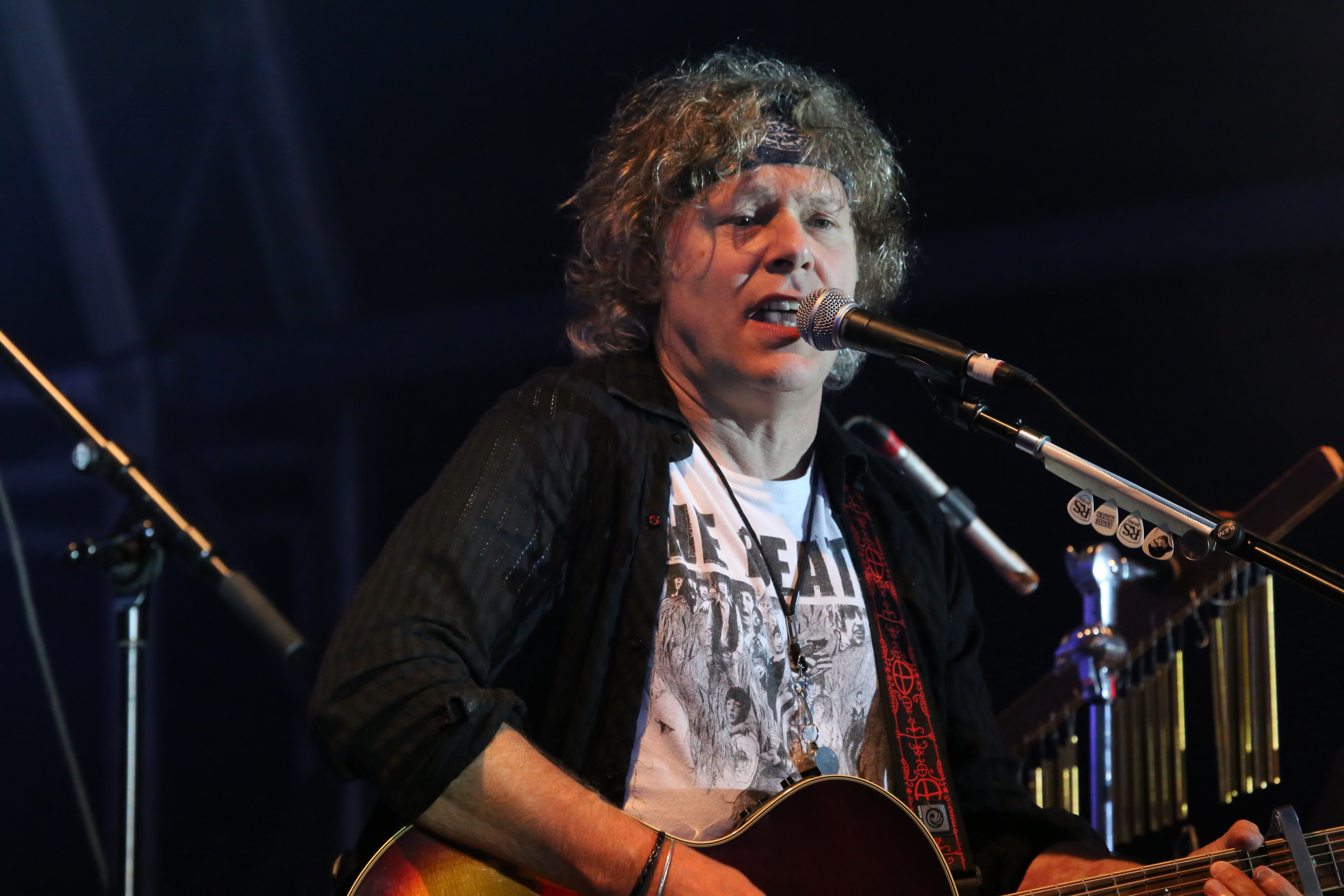 Jamie Moses performing with The SAS Band in 2013